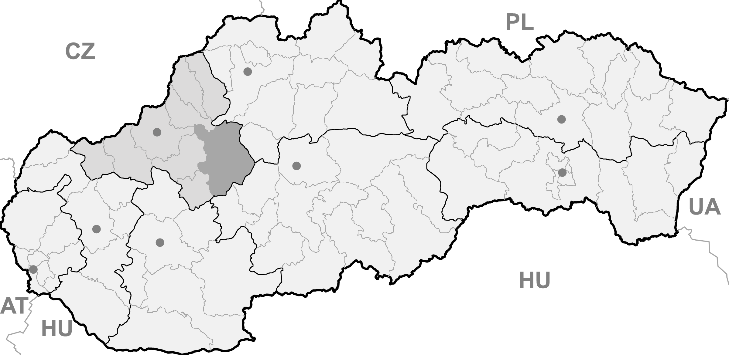 Map of Slovakia, Prievidza district and Trencin region highlighted